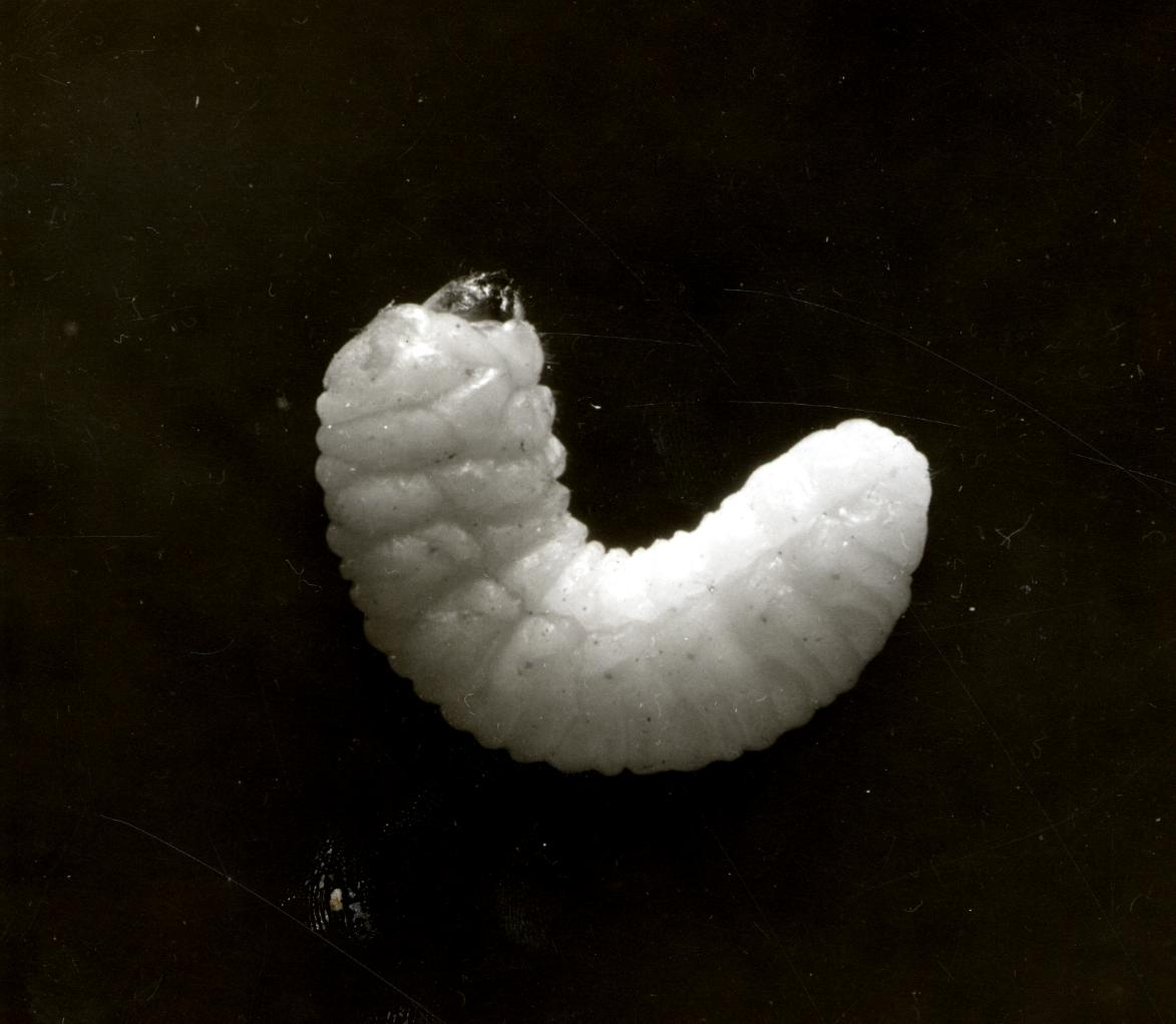 Coleoptera. Curculionidae. Cylindrocopturus. Cylindrocopturus furnissi. Mature larva x10. Note: - Taxonomy above is from the original 1939 documentation. - This image is Figure 17-B on page 45 of F.P. Keen's 1952 Insect Enemies of Western Forests. The caption reads, "The Douglas-fir twig weevil (Cylindrocopturus furnissi) larva, greatly enlarged." See: Photo by: Robert L. Furniss Date: 1939 Credit: USDA Forest Service, Pacific Northwest Region, State and Private Forestry, Forest Health Protection. Collection: Bureau of Entomology Collection; La Grande, Oregon. Image: BUR-8769 To learn more about this photo collection see: Wickman, B.E., Torgersen, T.R. and Furniss, M.M. 2002. Photographic images and history of forest insect investigations on the Pacific Slope, 1903-1953. Part 2. Oregon and Washington. American Entomologist, 48(3), p. 178-185. Image provided by USDA Forest Service, Pacific Northwest Region, State and Private Forestry, Forest Health Protection: This image or file is a work of a United States Department of Agriculture employee, taken or made as part of that person's official duties. As a work of the U.S. federal government, the image is in the public domain.